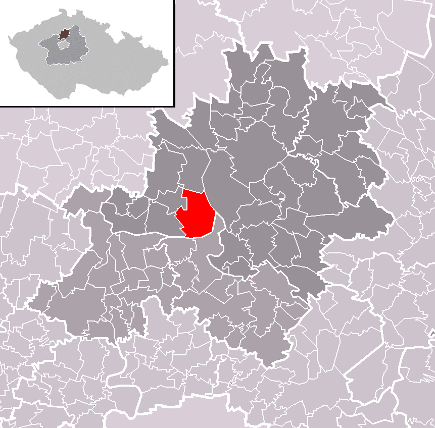 Location of Hořín municipality within Mělník District and administrative area of Mělník as a Municipality with Extended Competence.